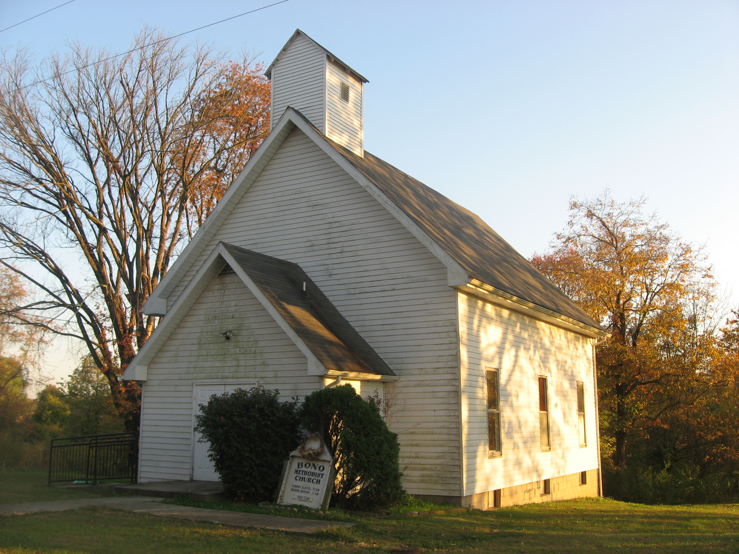 Front and northwestern side of the Bono United Methodist Church, located on Tunnelton Bono Road at Bono in Lawrence County, Indiana, United States. It was built in 1880.